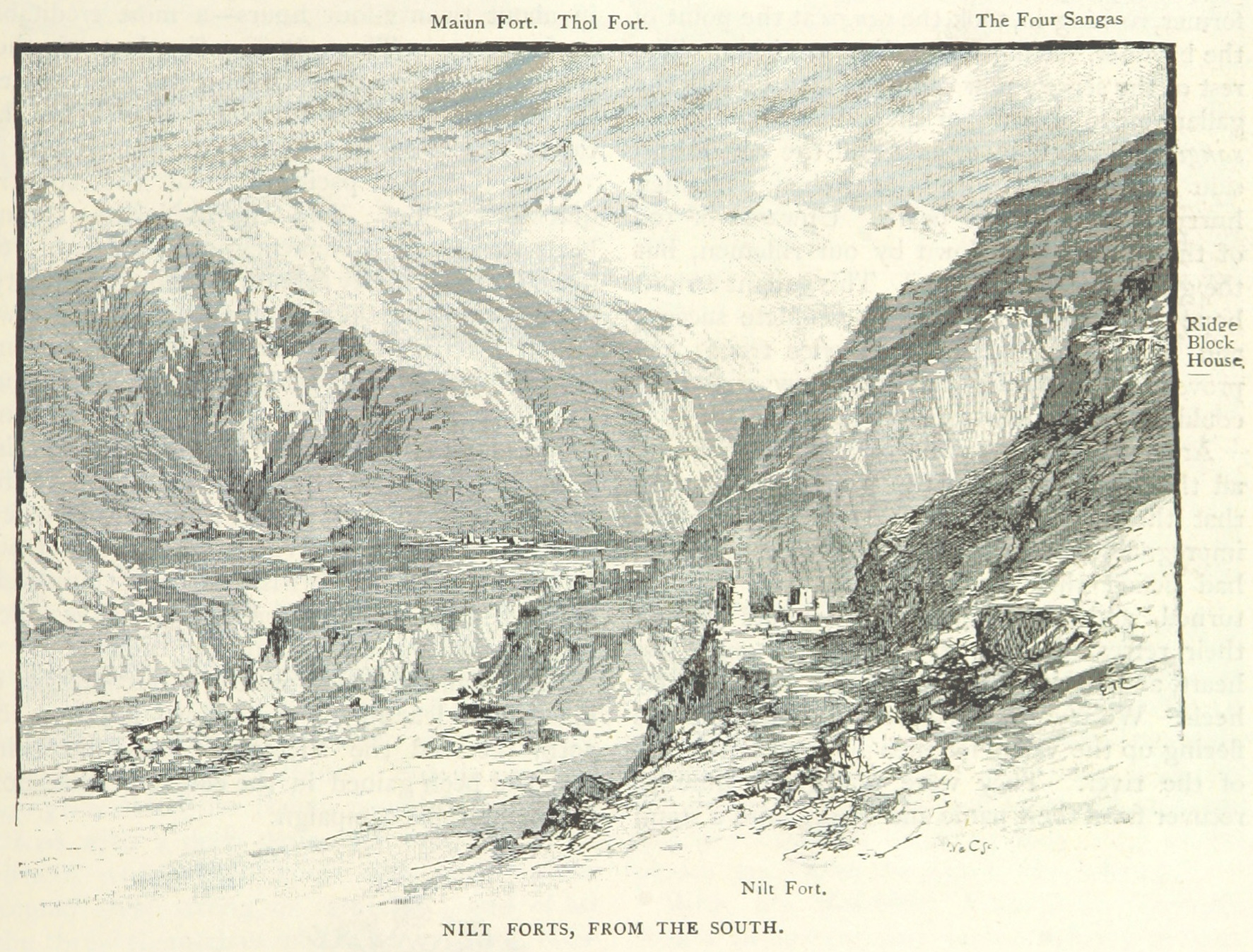 The forts at Nilt (modern-day Pakistan). They were stormed by the British in the 1891 Hunza–Nagar Campaign.